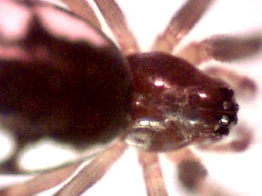 Frontinella species, closeup. Photograph by Patrick Edwin Moran.